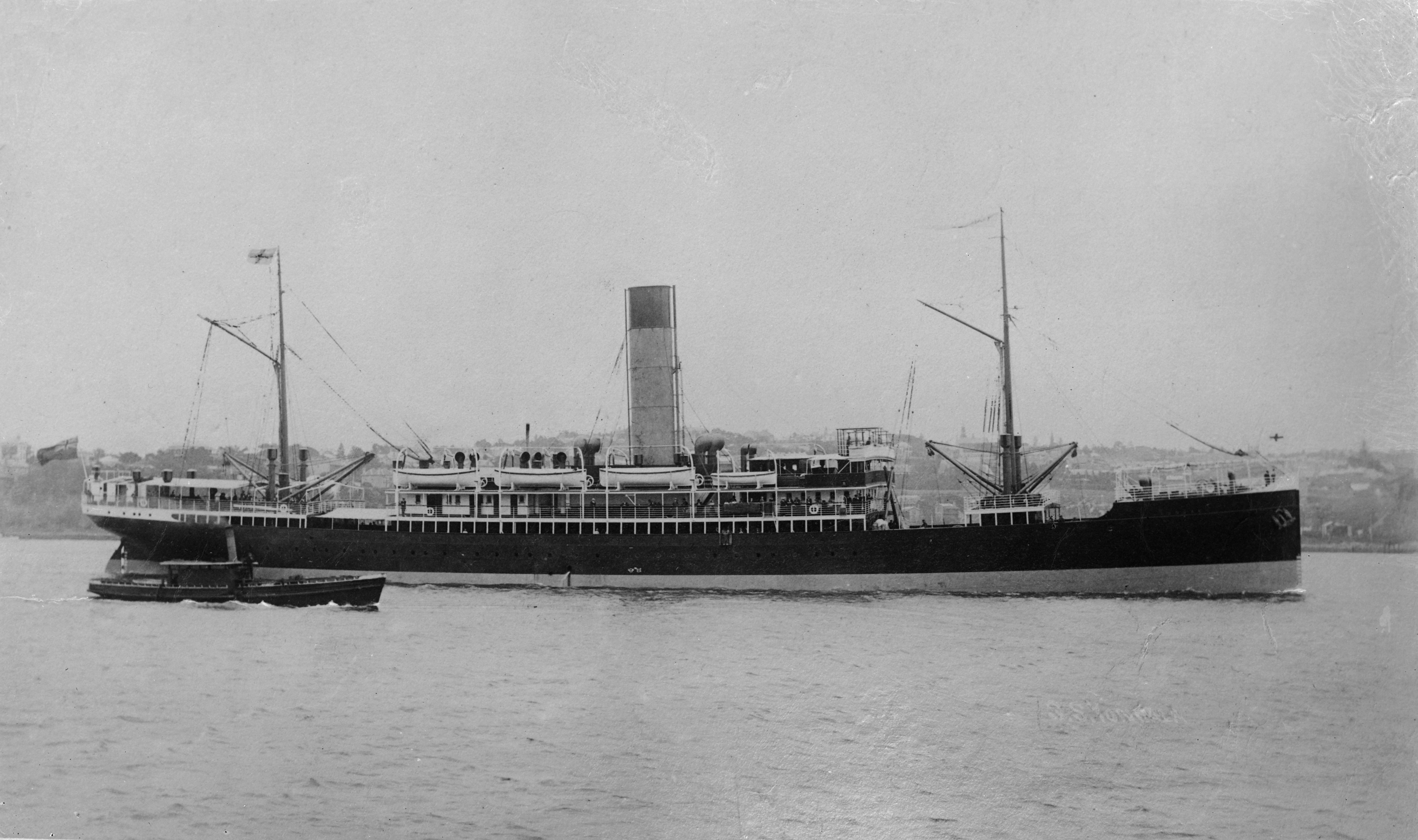 Original caption: “YONGALA”